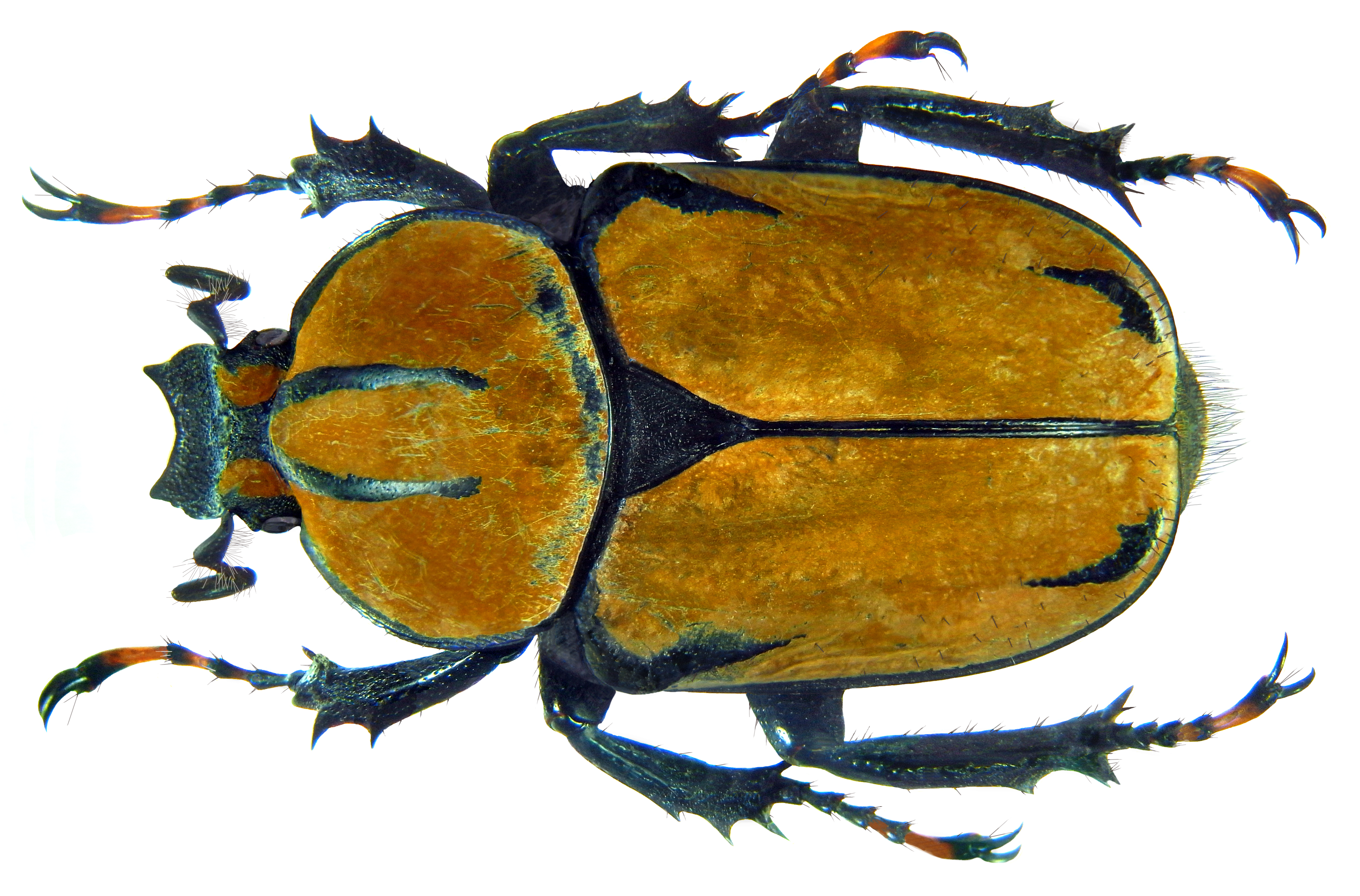 Dicronocephalus wallichii ssp. wallichii (Hope, 1831) female Family: Scarabaeridae Size: 24 mm (22,3-25,3 mm) Origin: China, North India to Taiwan Location: North Vietnam, Vinh Phuc Prov., Thai Nguen, Tam Dao National Park, 700-1000 m leg. A.Skale, 2.-5.V.2013; det. U.Schmidt, 2013 Photo: U.Schmidt, 2013